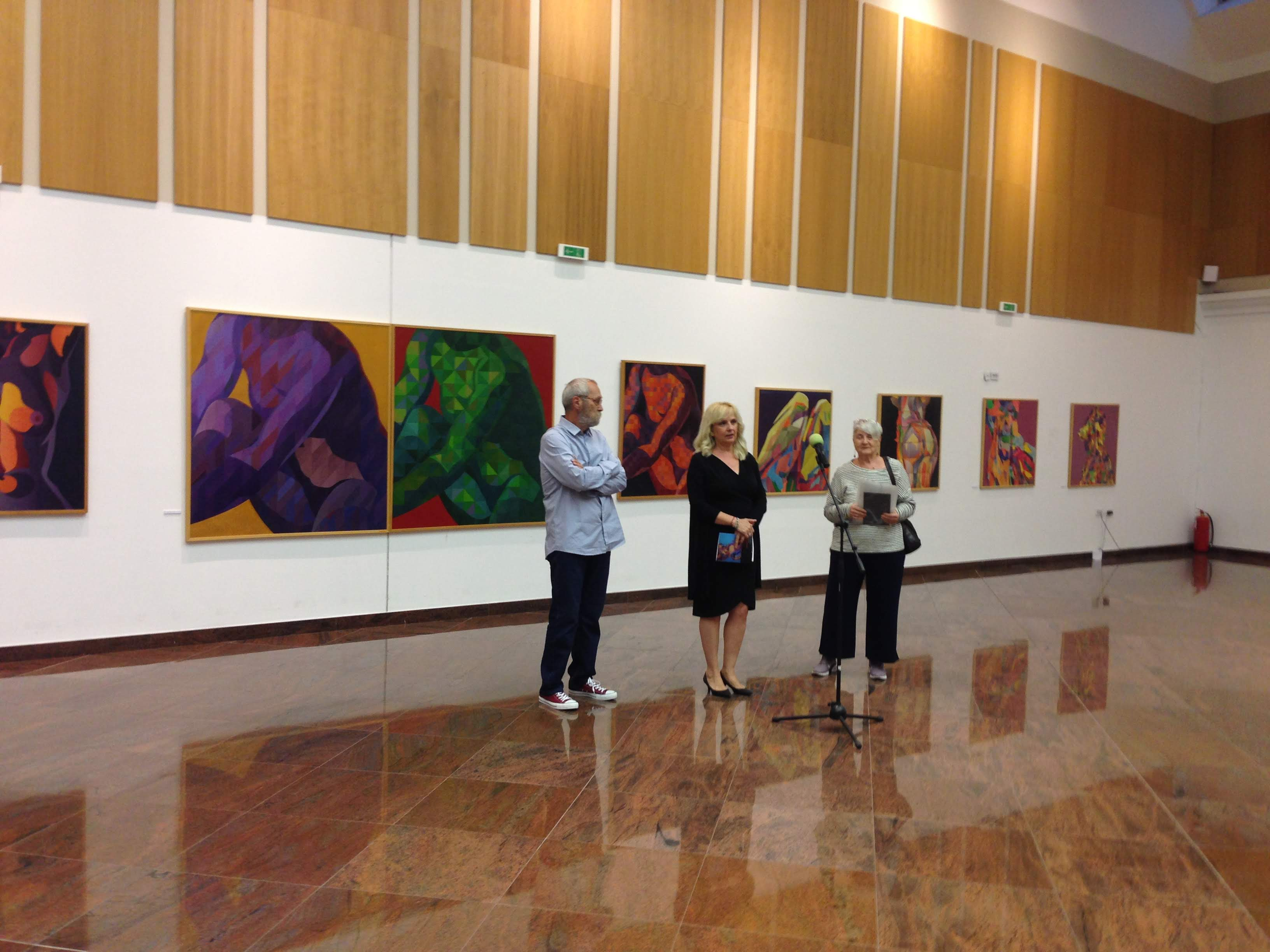 Serbian painter, Miodrag Miško Petrović. at the opening of an independent exhibition in Niš